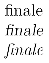 Example of normal(Roman), slanted and genuine italic text variants. Notice in particular the shapes of the f and a, that have become quite different, and the addition of serifs to the i, n, and l, and the slightly different form of the e. Font: Computer Modern, made with TeX. Code: ({\rm finale}\par{\sl finale}\par{\it finale}\bye).